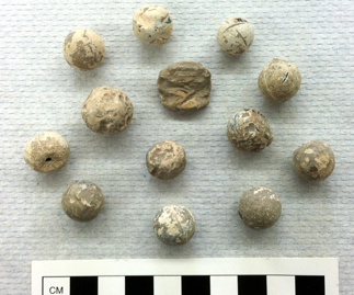 Photo taken by Kyra McCormick, Becca Leon, and LisaMarie Malischke